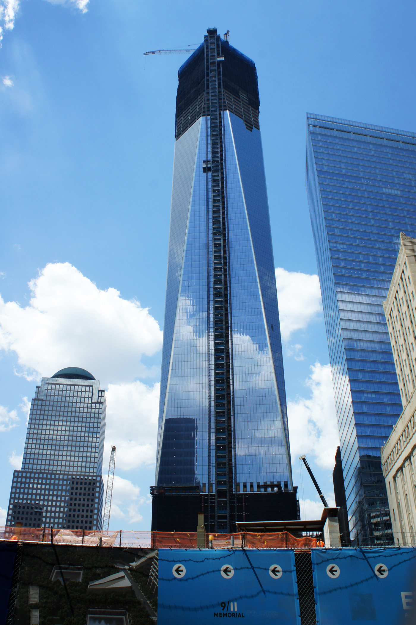 One World Trade Center under construction as of July 2012, New York City.